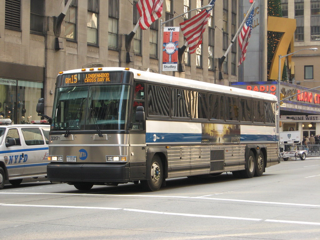 NYC Transit MCI D4500CL #3317 on the QM15 line by Rockefeller Center.